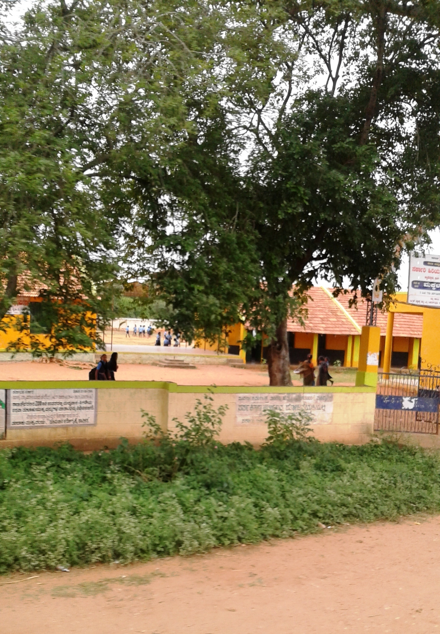 Mandya district, Karnataka state, India.